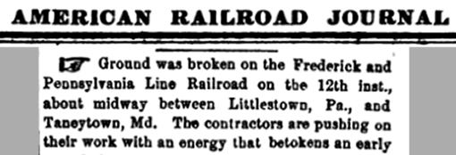 American Railroad journal